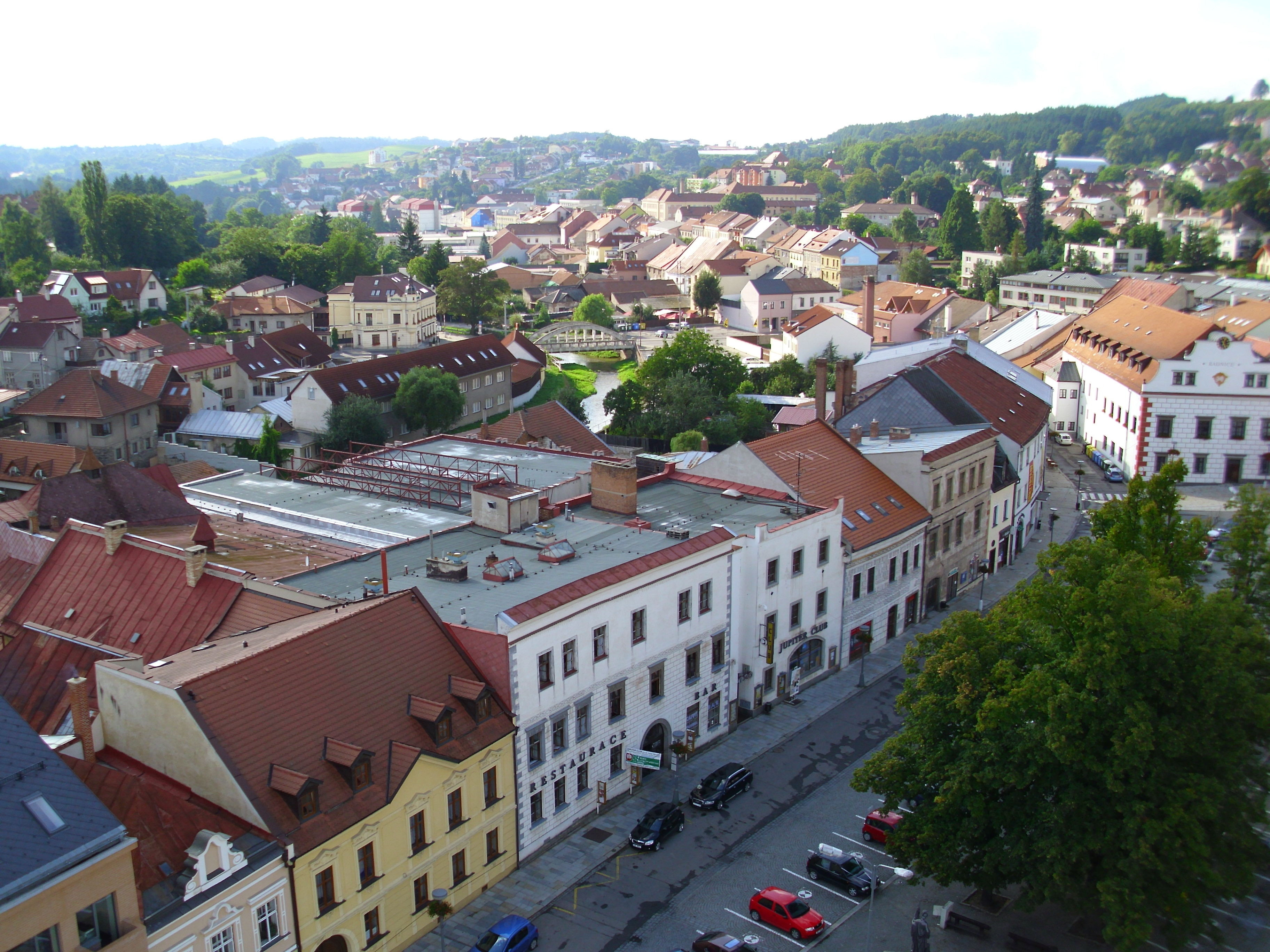 Aerial view of Velke Mezirici